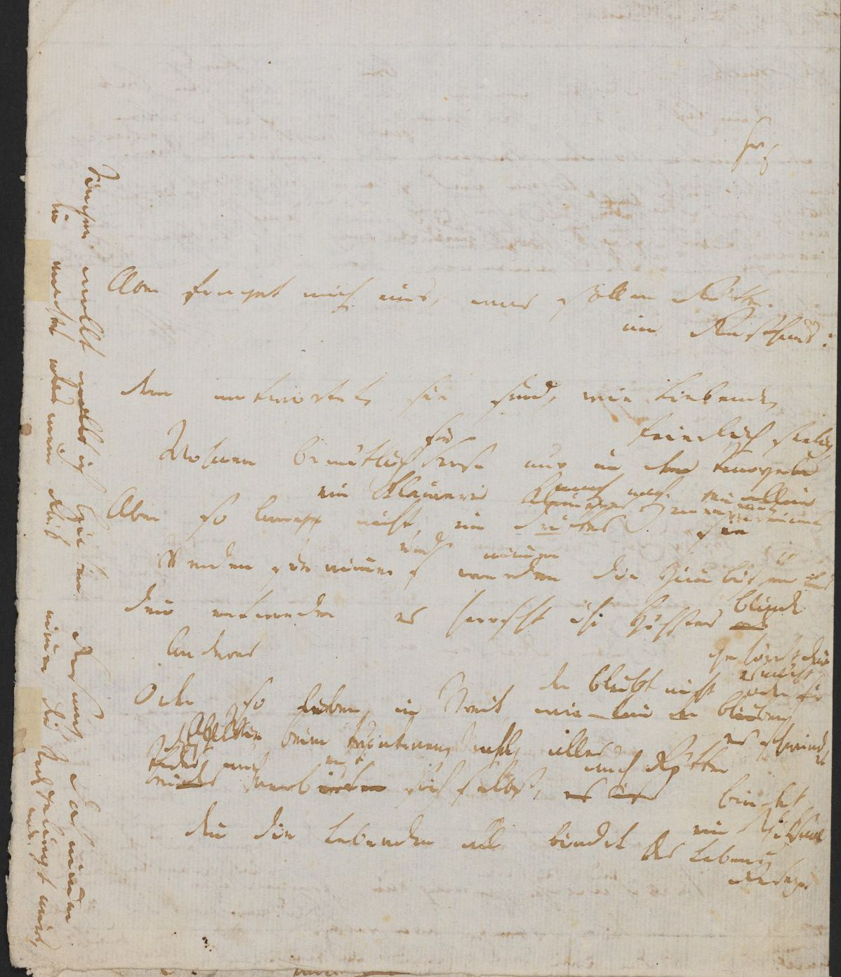 Manuscript of Hölderlin#s poem "Der Gang aufs Land", part 3